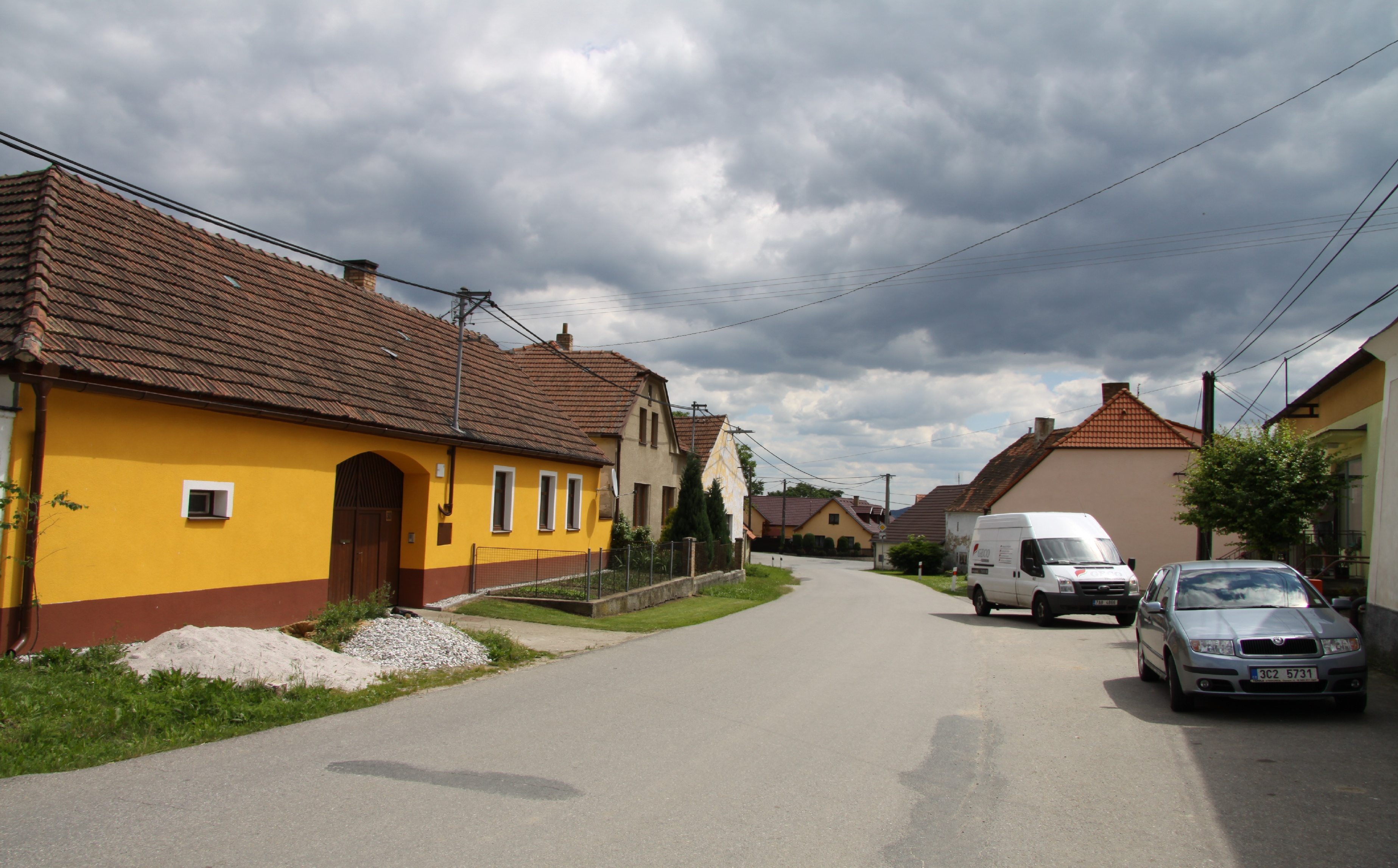 Kladruby village in Strakonice District, Czech Republic This photograph was taken within the scope of the 'Czech Municipalities Photographs' grant. - Google Maps - Google Earth